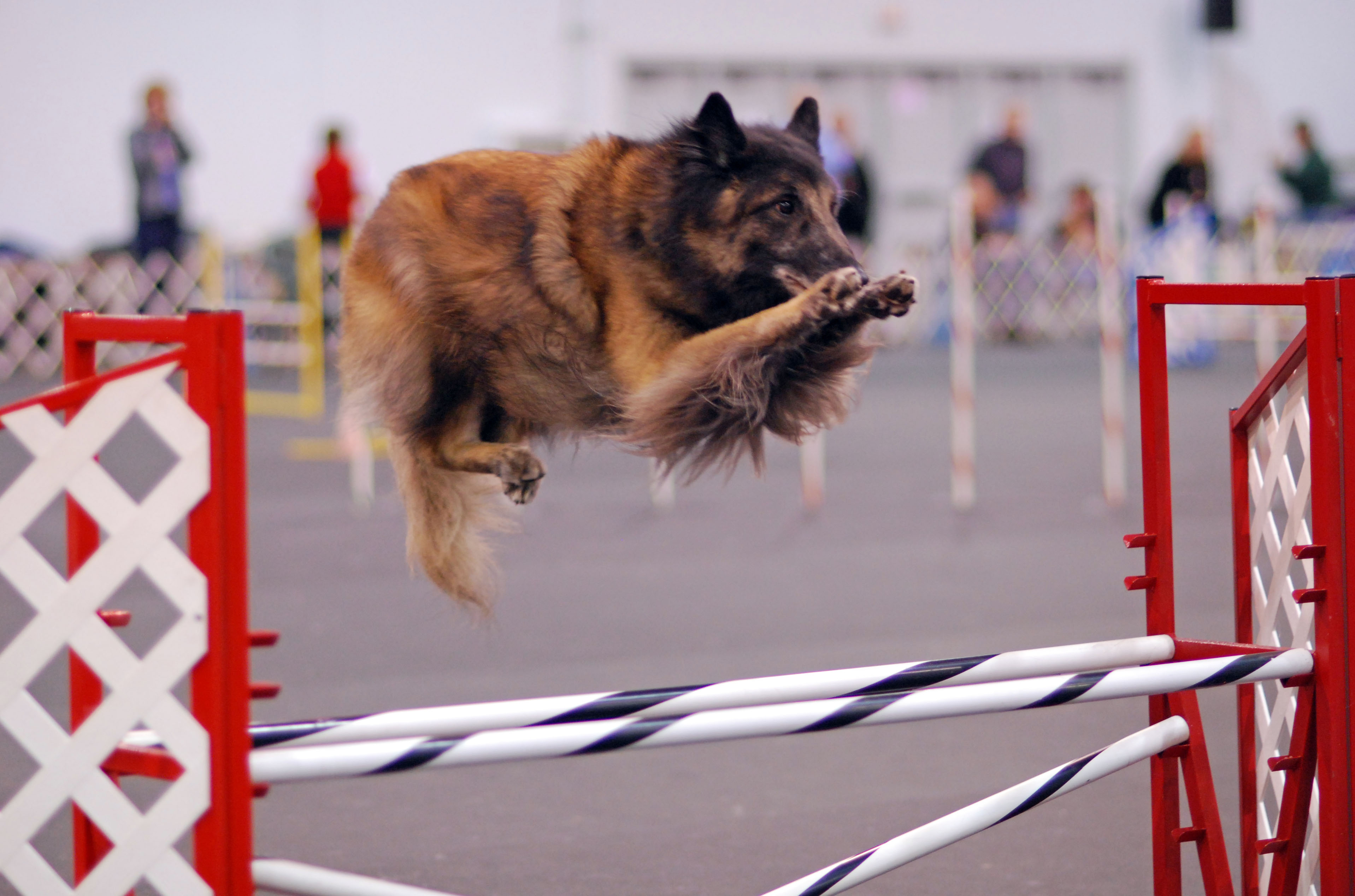 A Belgian Tervuren going over a jump in an agility competition at the Rose City Classic AKC Show 2007, Portland, Oregon, USA.